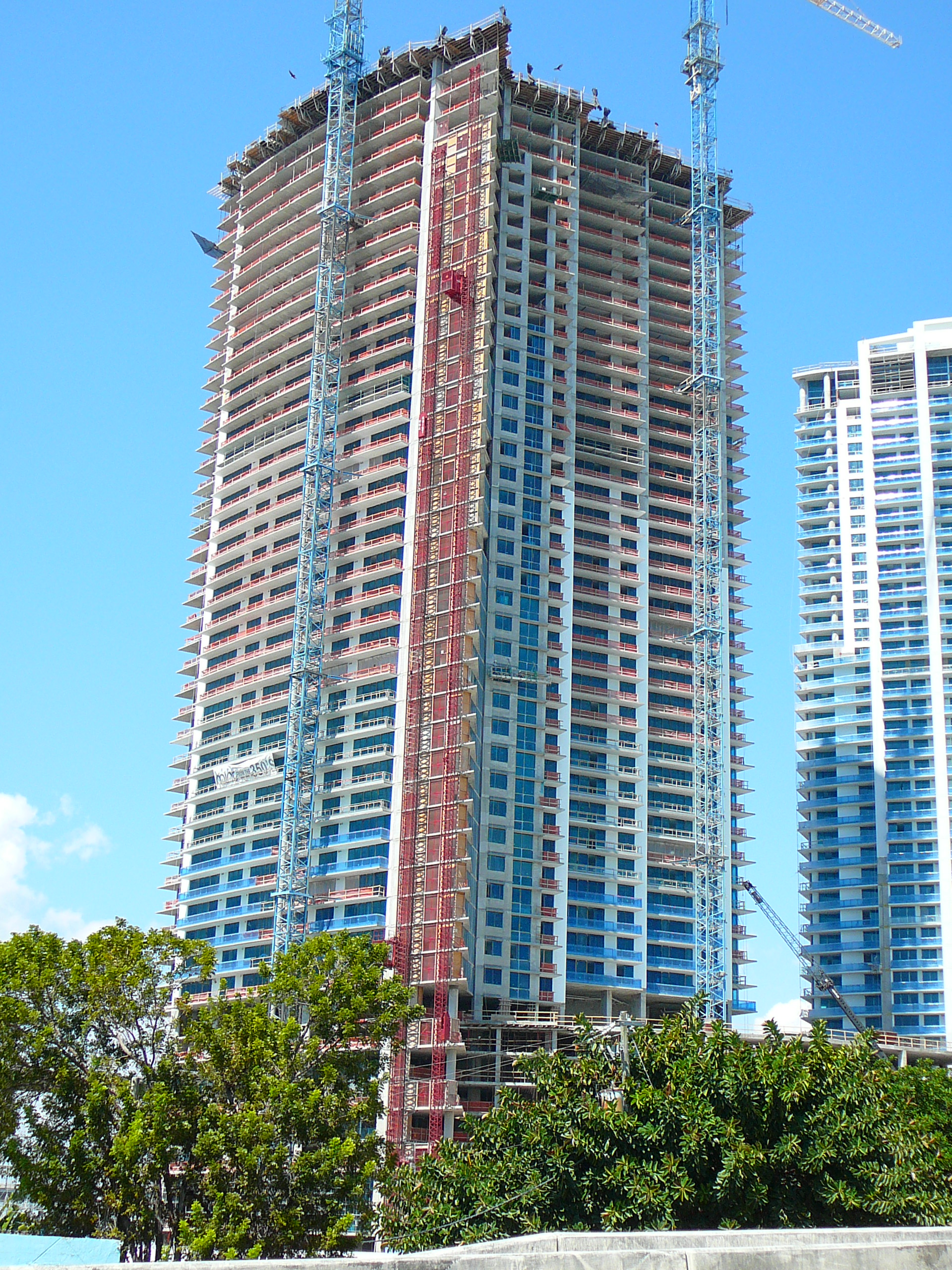 Digital photo taken by Marc Averette. Mint at Riverfront residential tower in downtown Miami as it nears completion.